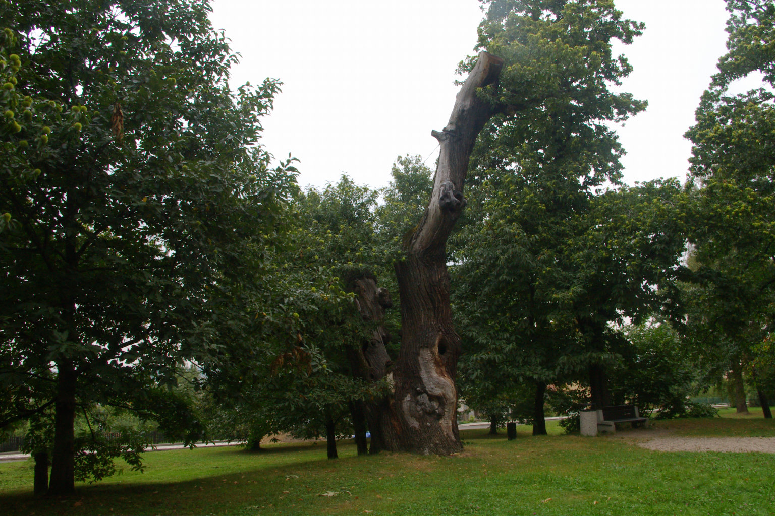 Knizak